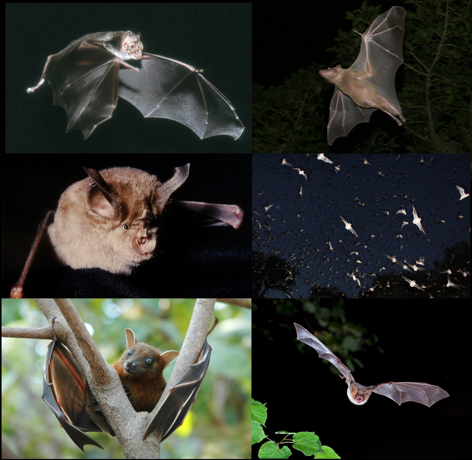 Bats - Chiroptera Clockwise: Common Egyptian Fruit Bat Rousettus aegyptiacus, Mexican Free-Tail Bat Tadarida brasiliensis, Myotis myotis, Lesser Short-Nose Fruit Bat Cynopterus sphinx, Horseshoe Bat Rhinolophus ferrumequinum, Common Vampire Bat Desmodus rotundus.